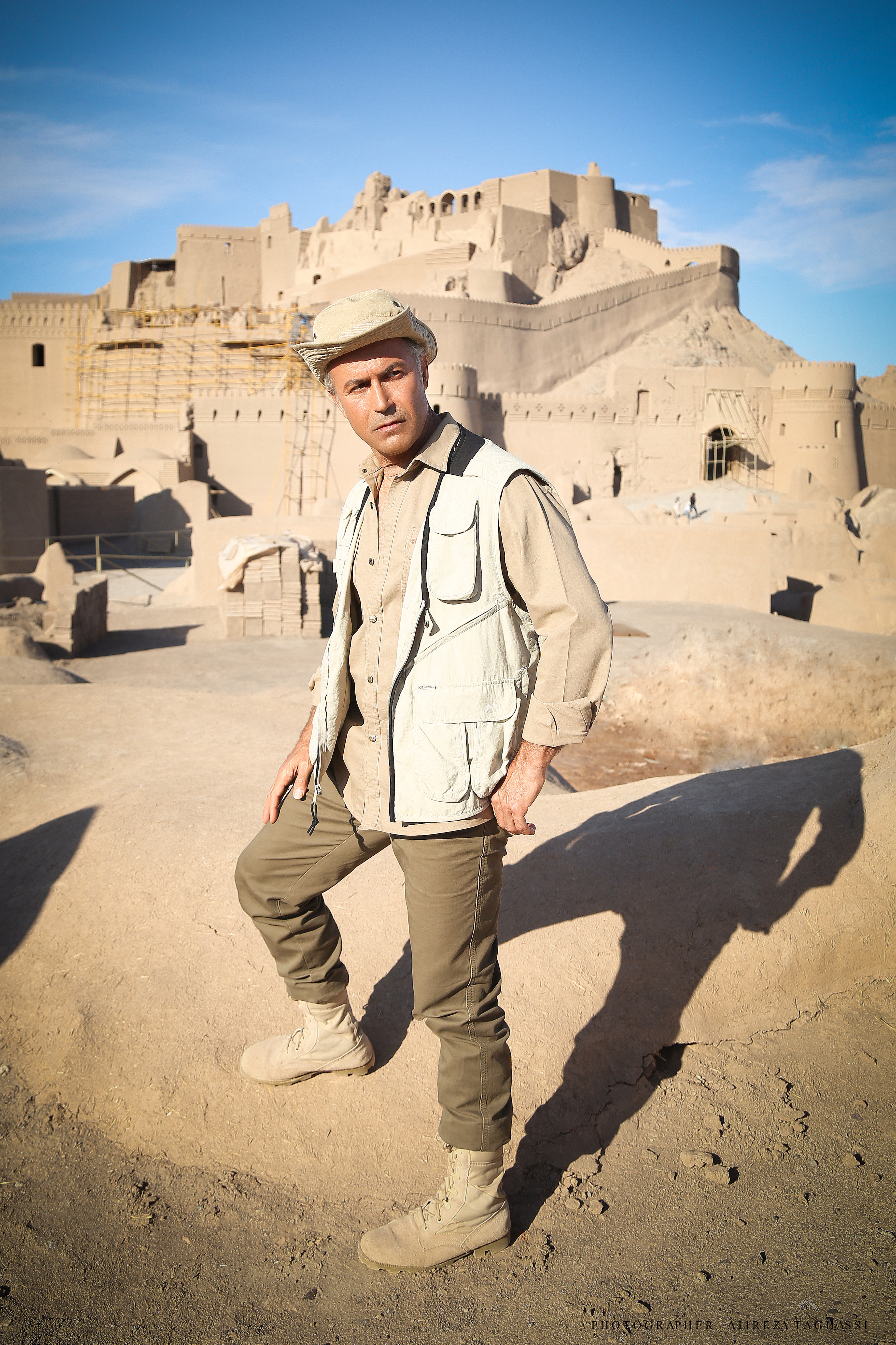 Warm Soil (2018) TV Series Danial Hakimi as Professor Brumand